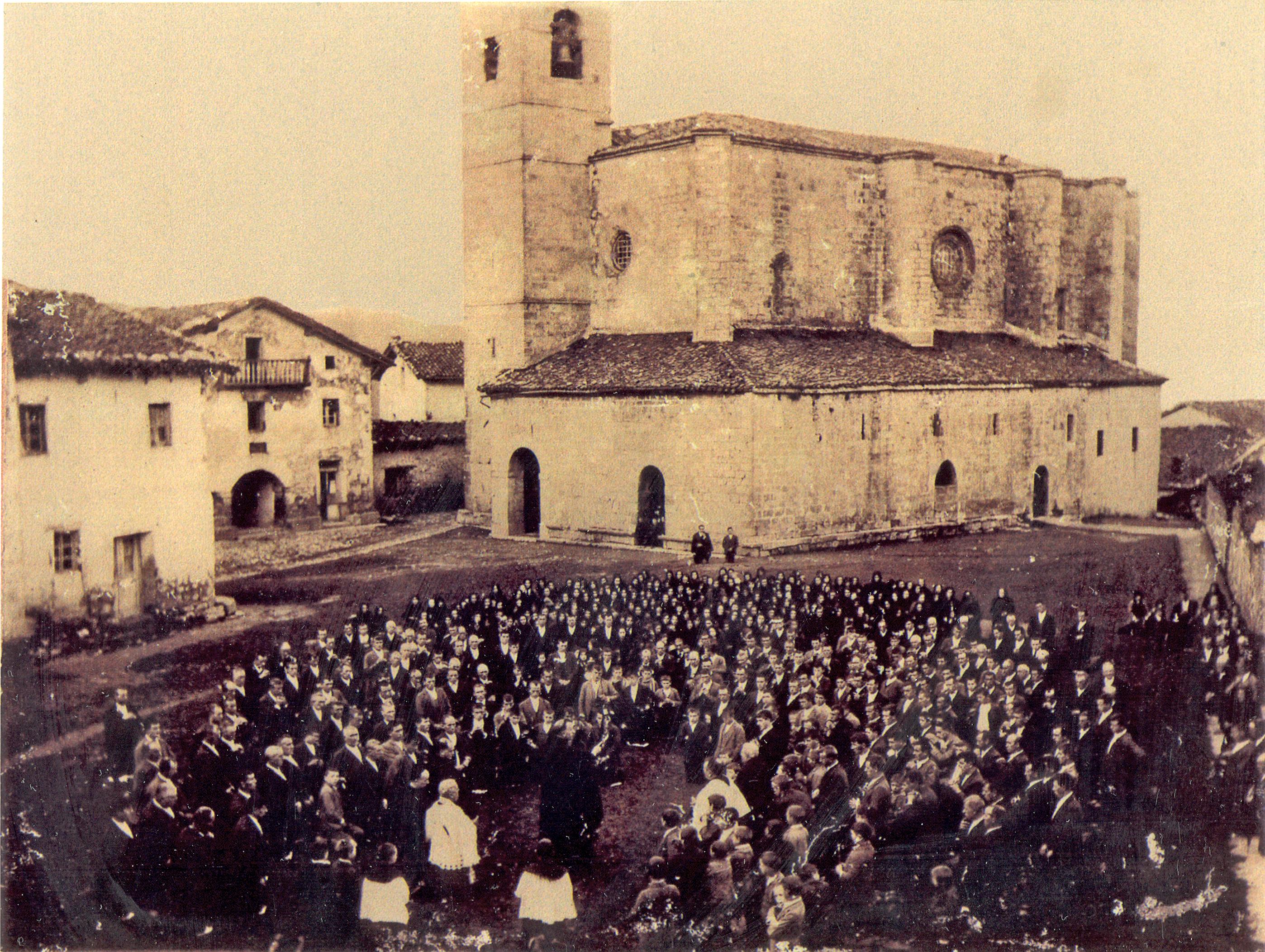 Alkiza's main square circa 1900, religious act